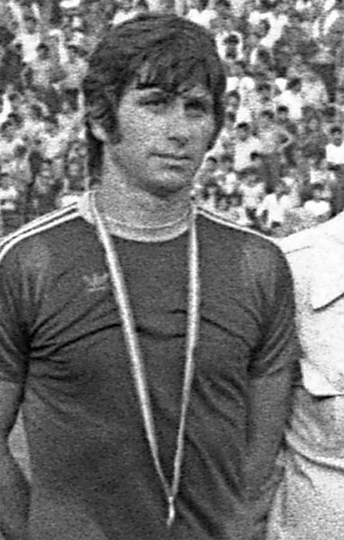 Costel Orac playing for U Craiova in 1983